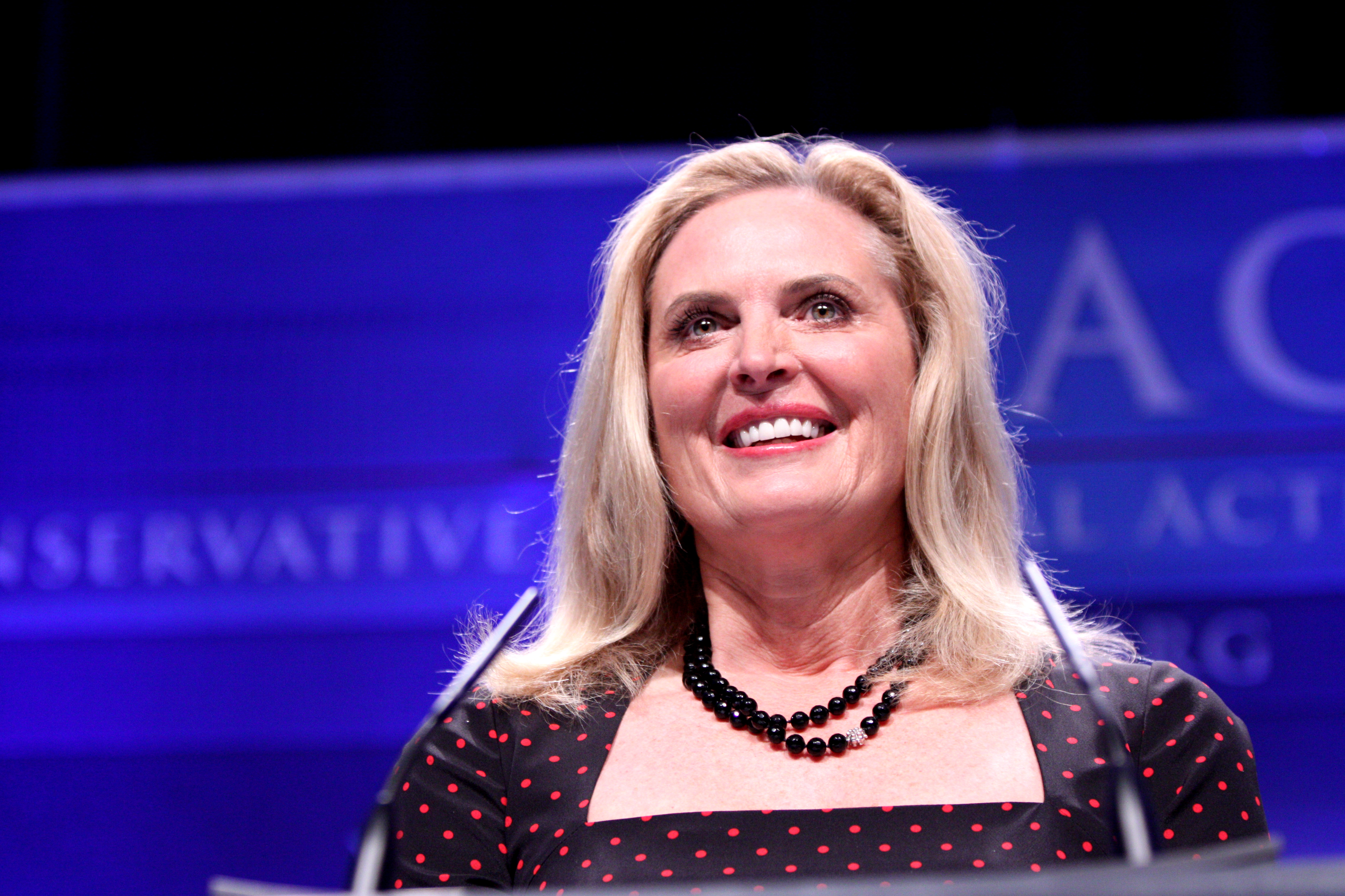 Ann Romney, wife of former Governor Mitt Romney, speaking at CPAC 2011 in Washington, D.C.